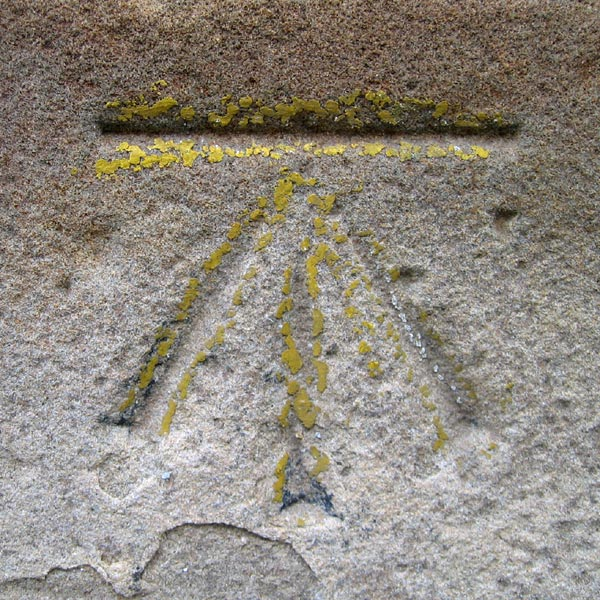 An Ordnance Survey cut benchmark in Edinburgh, Scotland. © 2004, Jeremy Atherton The term benchmark originates from chiseled horizontal marks, like this one, that surveyors made into which an angle-iron could be placed to bracket (bench) a levelling rod, thus ensuring that the levelling rod can be accurately repositioned in the same place in the future. These marks were usually highlighted with a chiseled arrow below the horizontal line.